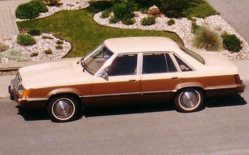 Ford LTD 84'